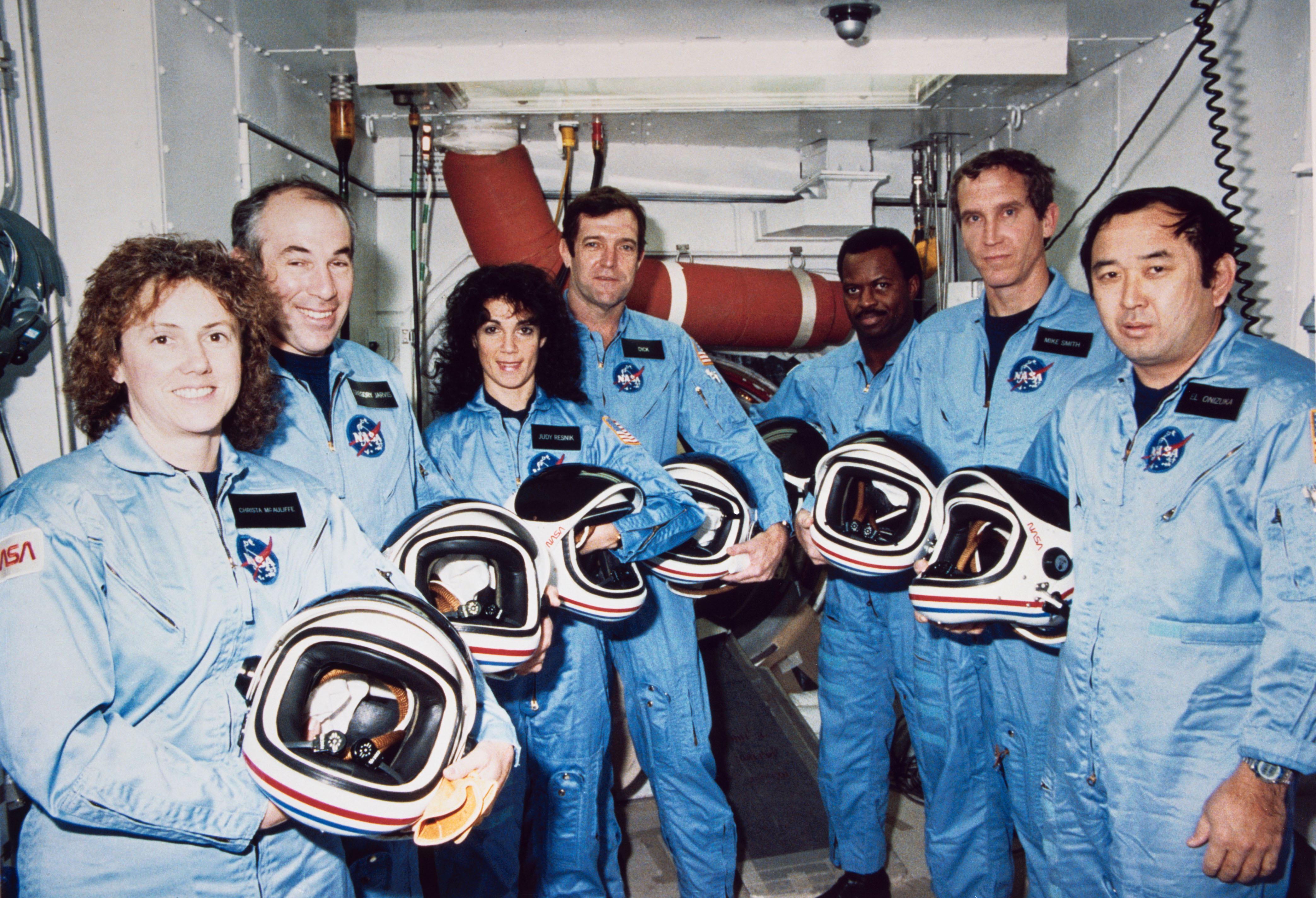 Crew members of mission STS-51L stand in the White Room at Pad 39B following the end of the Terminal Countdown Demonstration Test (TCDT). From left to right they are: Teacher in Space Participant, Sharon "Christa" McAuliffe, Payload Specialist, Gregory Jarvis, Mission Specialist, Judy Resnik, Commander Dick Scobee Mission Specialist, Ronald McNair, Pilot, Michael Smith and Mission Specialist, Ellison Onizuka